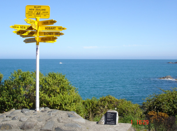 Sign pointing to cities around the world, at the end of SH1, Bluff, New Zealand.